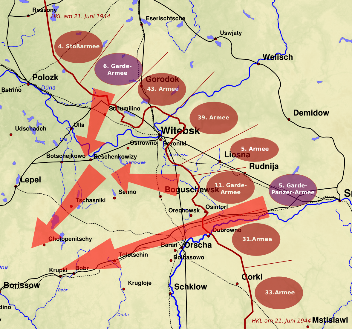 Map showing the dispositions of the red army before the start of the offensive operation bagration (June 21, 1944)